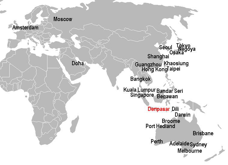 Cities with direct international airlinks to Denpasar Airport